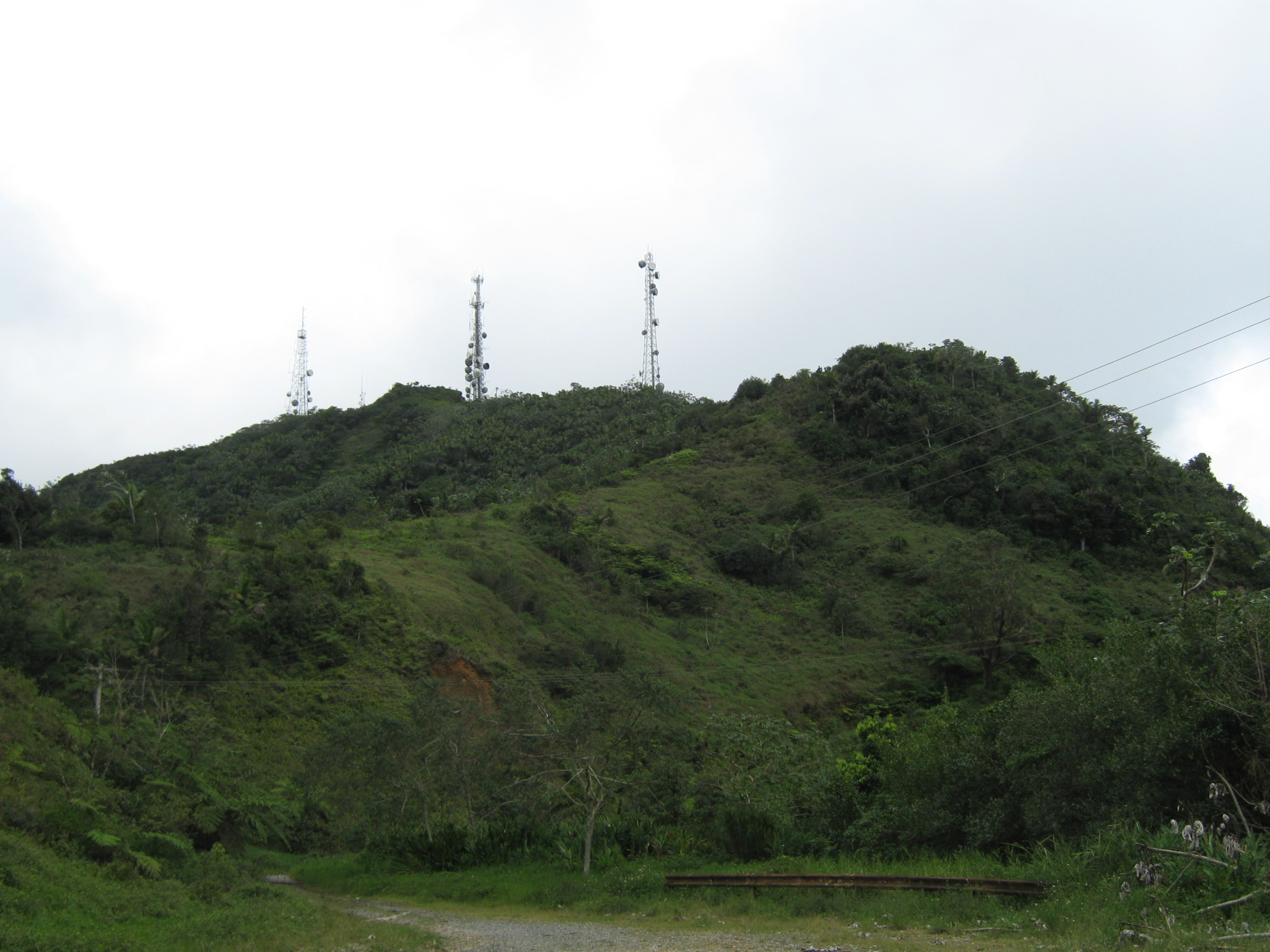 Cerro Punta, highest peak of Puerto Rico, from Scenic Route